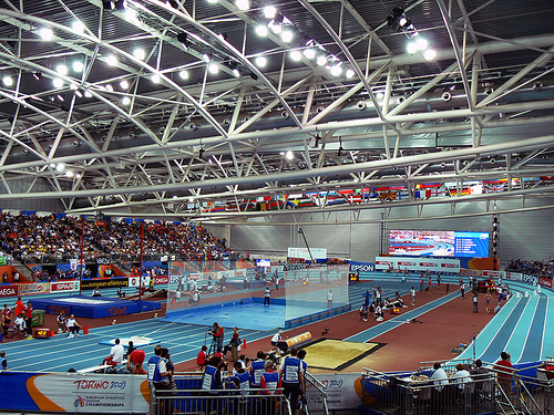 Torino's Oval hosting 2009 European Atheltics Indoor